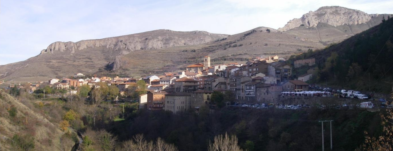 View of Anguiano